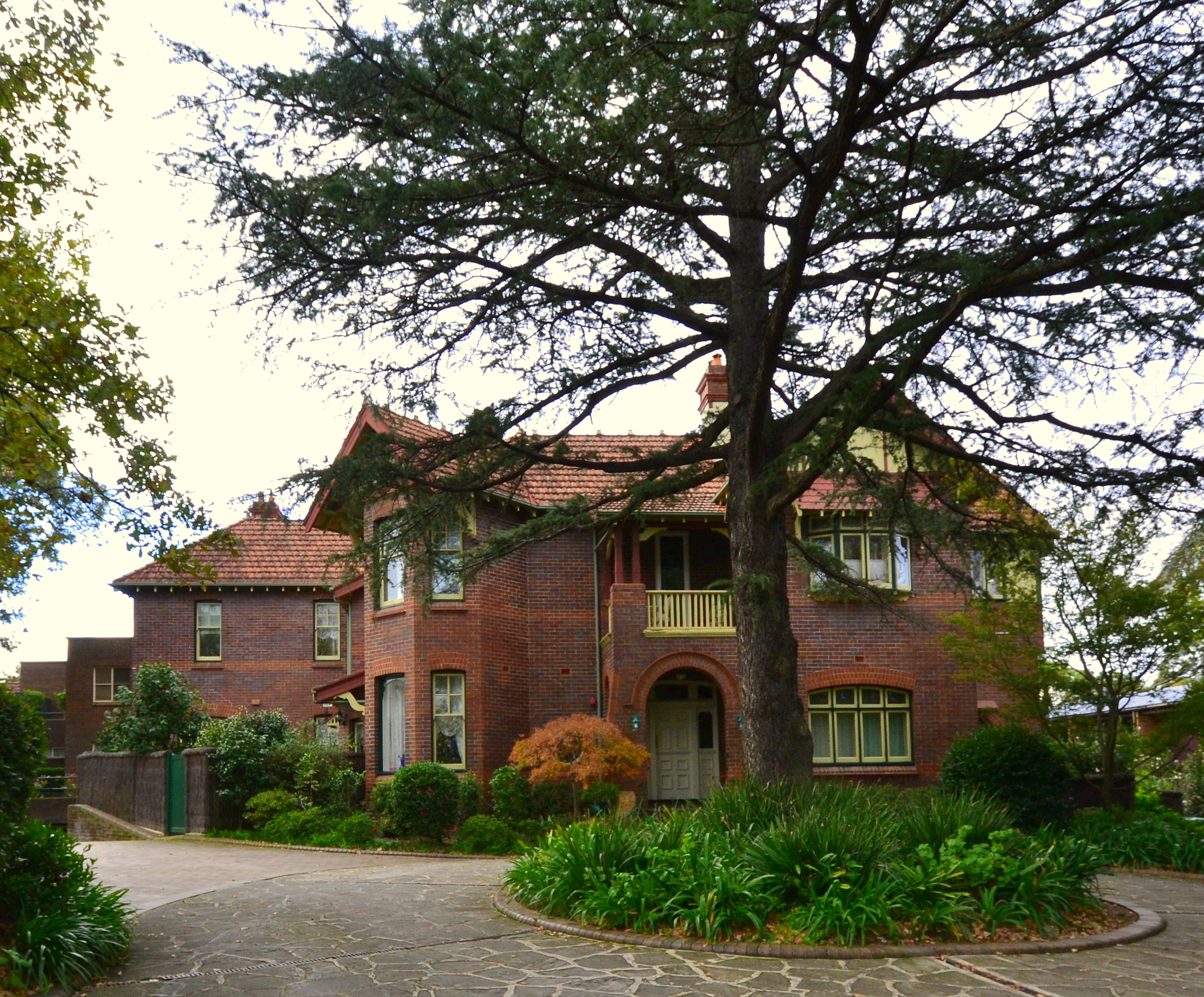 Cherrywood, Pacific Highway, Turramurra, Sydney